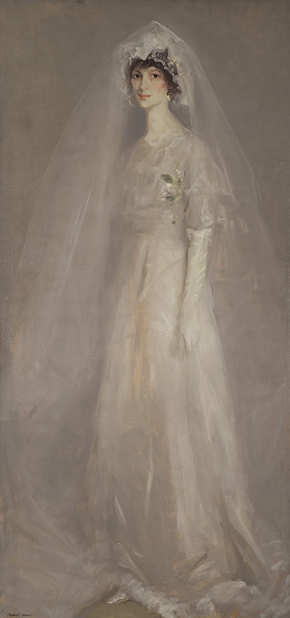 Portrait by Robert Henri of Portrait of Eulabee Dix (Becker) in Her Wedding Gown, 1910. Located at the Museum of Nebraska Art in Kearney, Nebraska